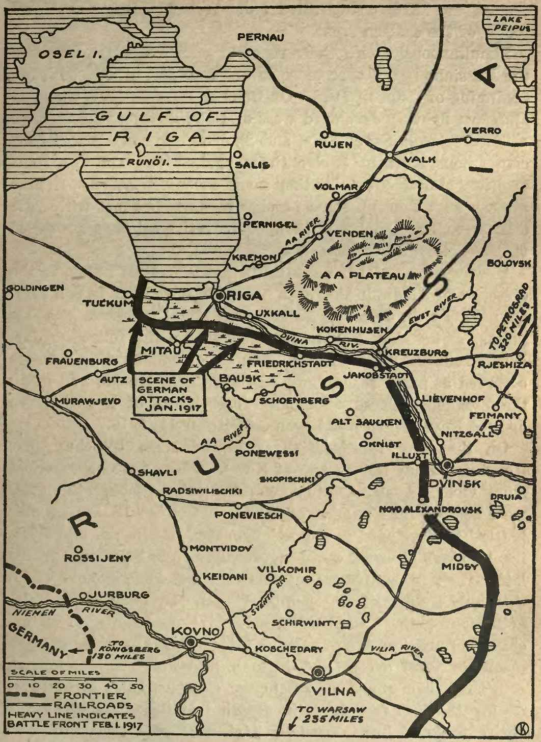 Map showing actions and positions during the German counter-offensive towards Riga, after the Russian 12th Army offensive (Battle of the River Aa), January - February 1917.